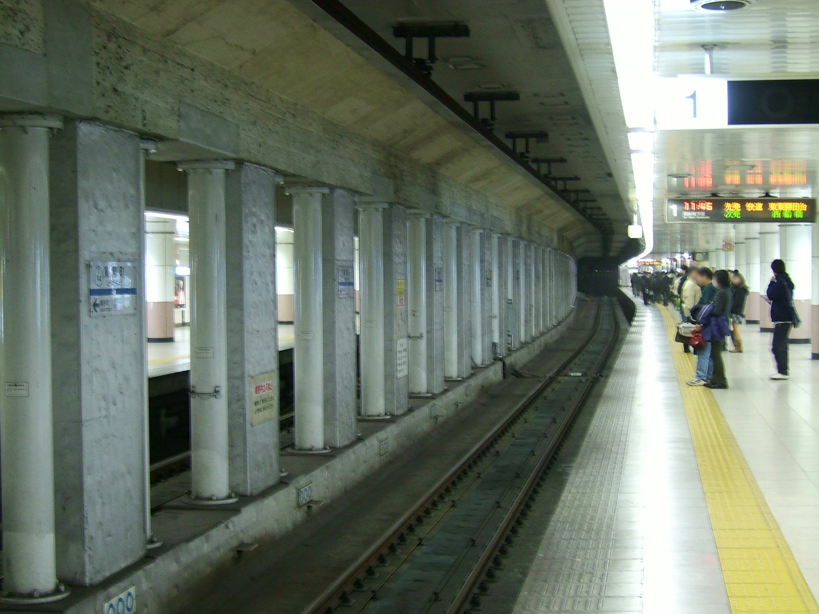 The platforms of Tōyōchō Station, Tokyo Metro Tōzai Line